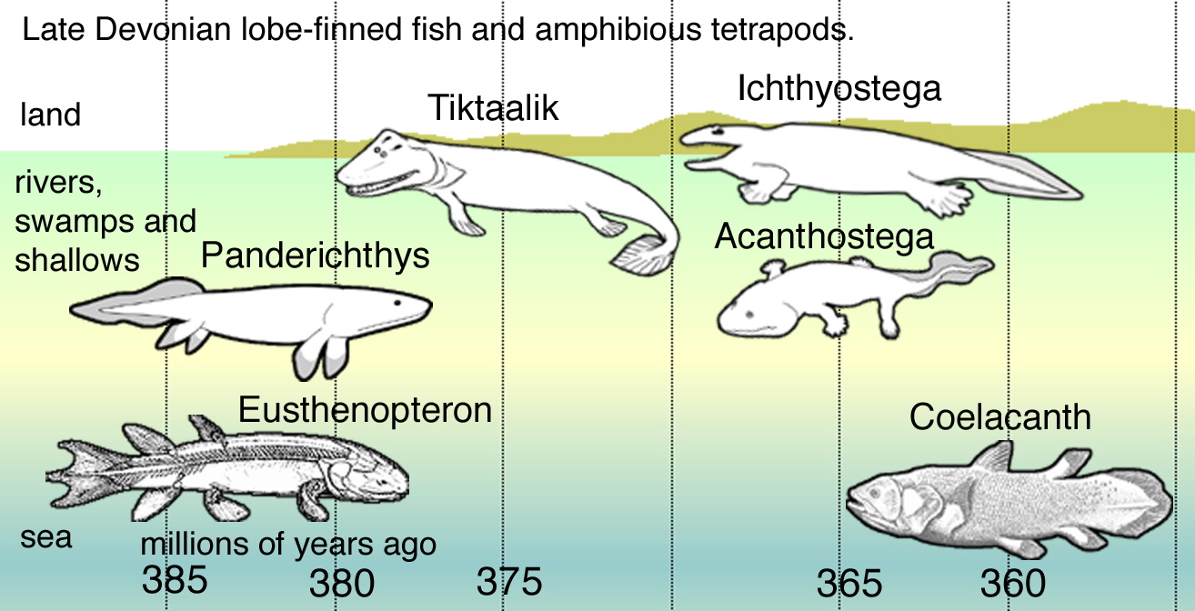 Late Devonian vertebrate speciation; descendants of pelagic lobe-finned fish including early tetrapods as well as other lobe-finned fish. incorporating images by others: under GNU FDL licence: Image:Finny original.svg Image:AcanthostegaNewZICA.png Image:PleaisaidesZICA.png Public domain: Image:Eusthenopteron.gif Image:Coelacanth.png Spreadsheet chart and gradient done with Appleworks, images composited and text added in Photoshop Elements, on a 2001 iBook (G3 466). Contact me at user talk:dave souza to request any changes.